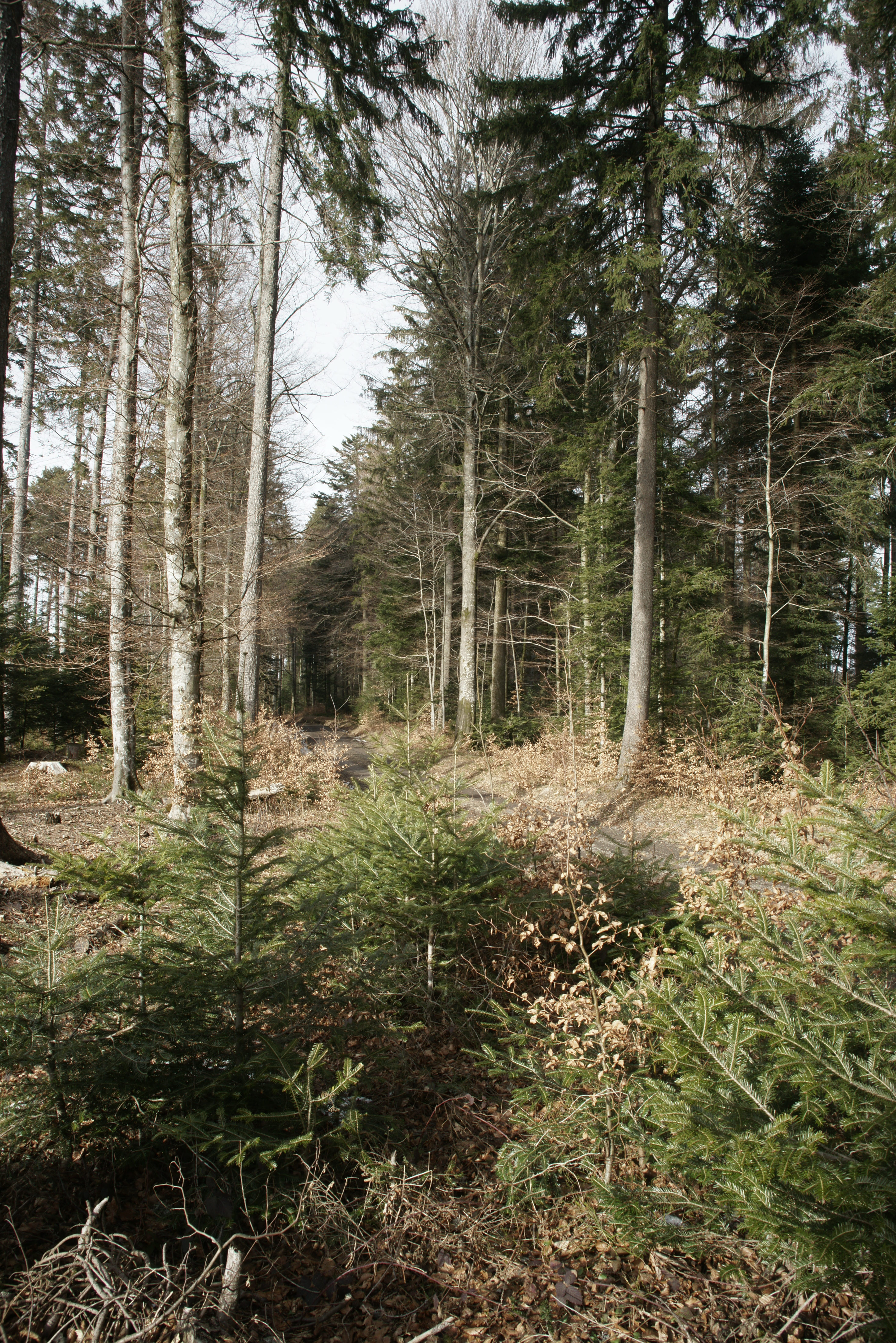 Bois Faucan in the forest of Jorat near Corcelles-le-Jorat.